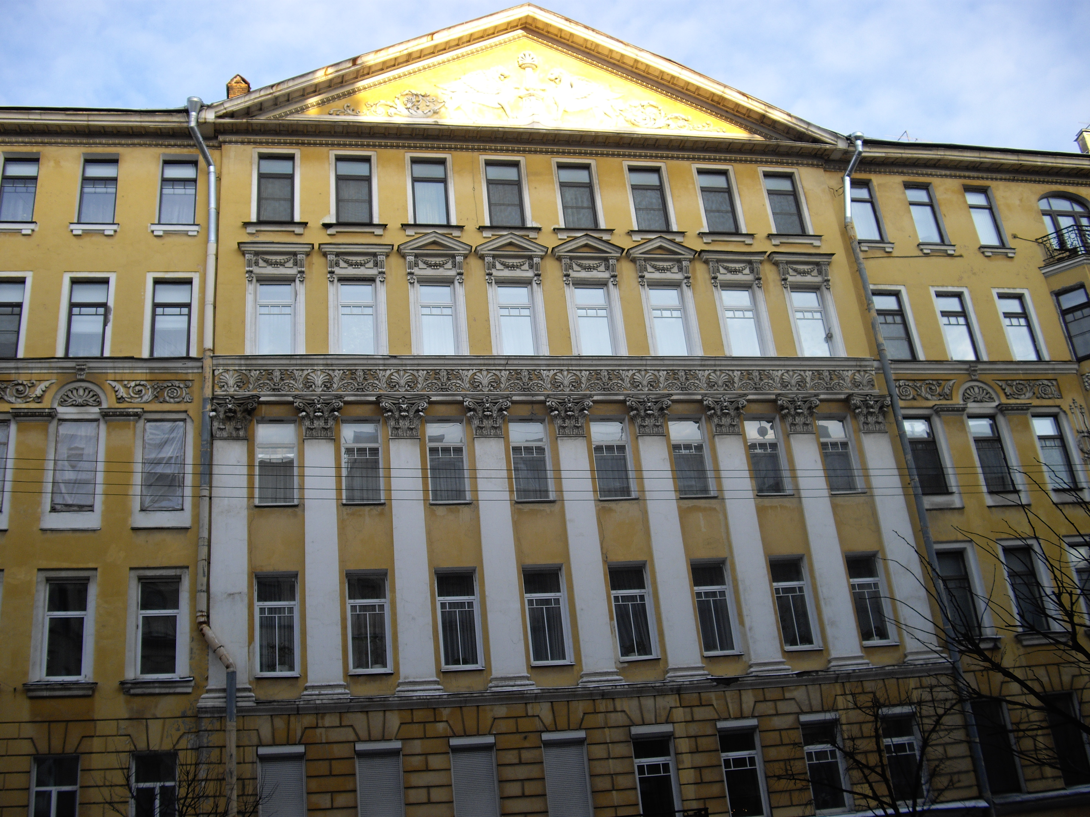 Shulgin House in Zverinskaya Street, 40-42, Saint Petersburg, Russia. Architects Upattchev and von Wilcken, 1910-1912.